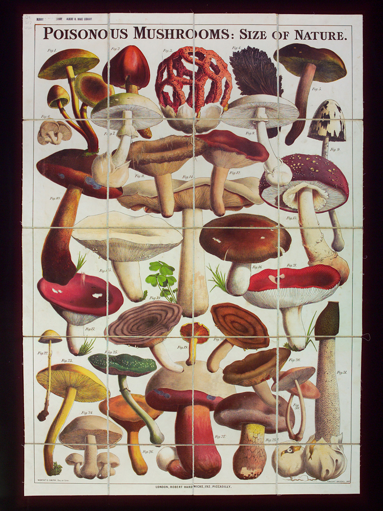 "Poisonous mushrooms"